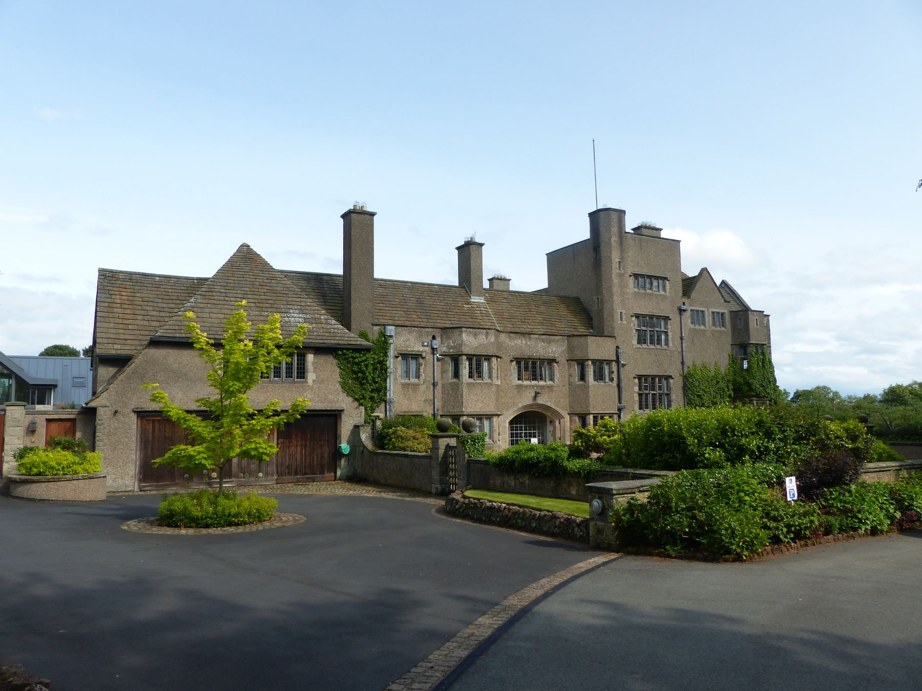 A Grade II* listed Arts and Crafts house in Willington, Cheshire, built 1906–c.1914 by C E Mallows.